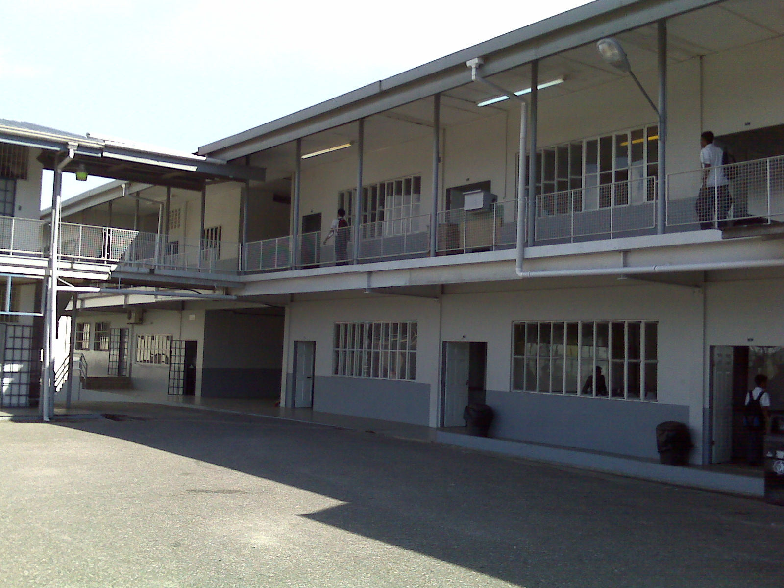 The Grant's Memorial Wing of Naparima College, seen from the courtyard — in San Fernando, Trinidad and Tobago..